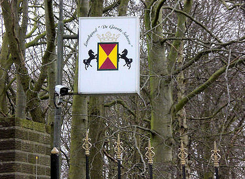 Gate "De Groote Scheere"